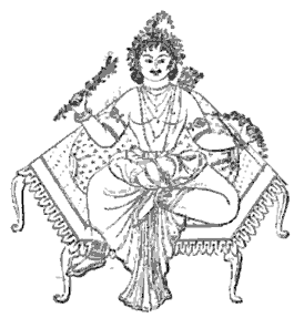 Kāmadeva, the Hindu deity of love